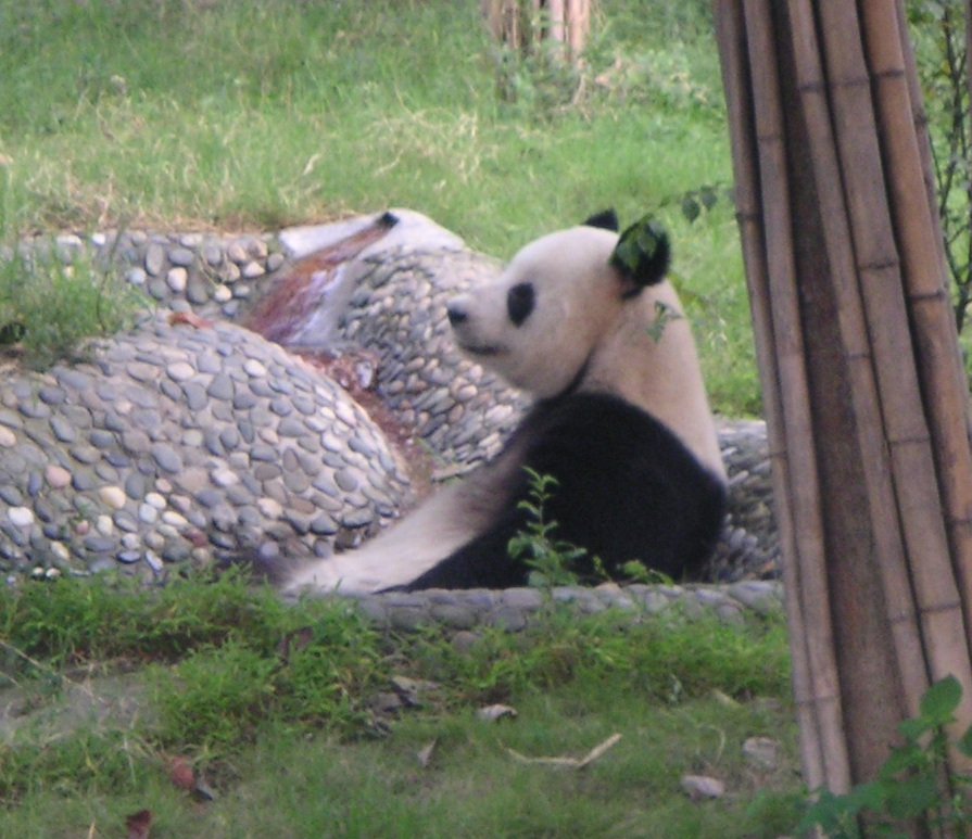 A Giant Panda at Chengdu Research Base of Giant Panda Breeding.